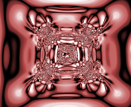 An image arising from a fixed-point continued fraction form.